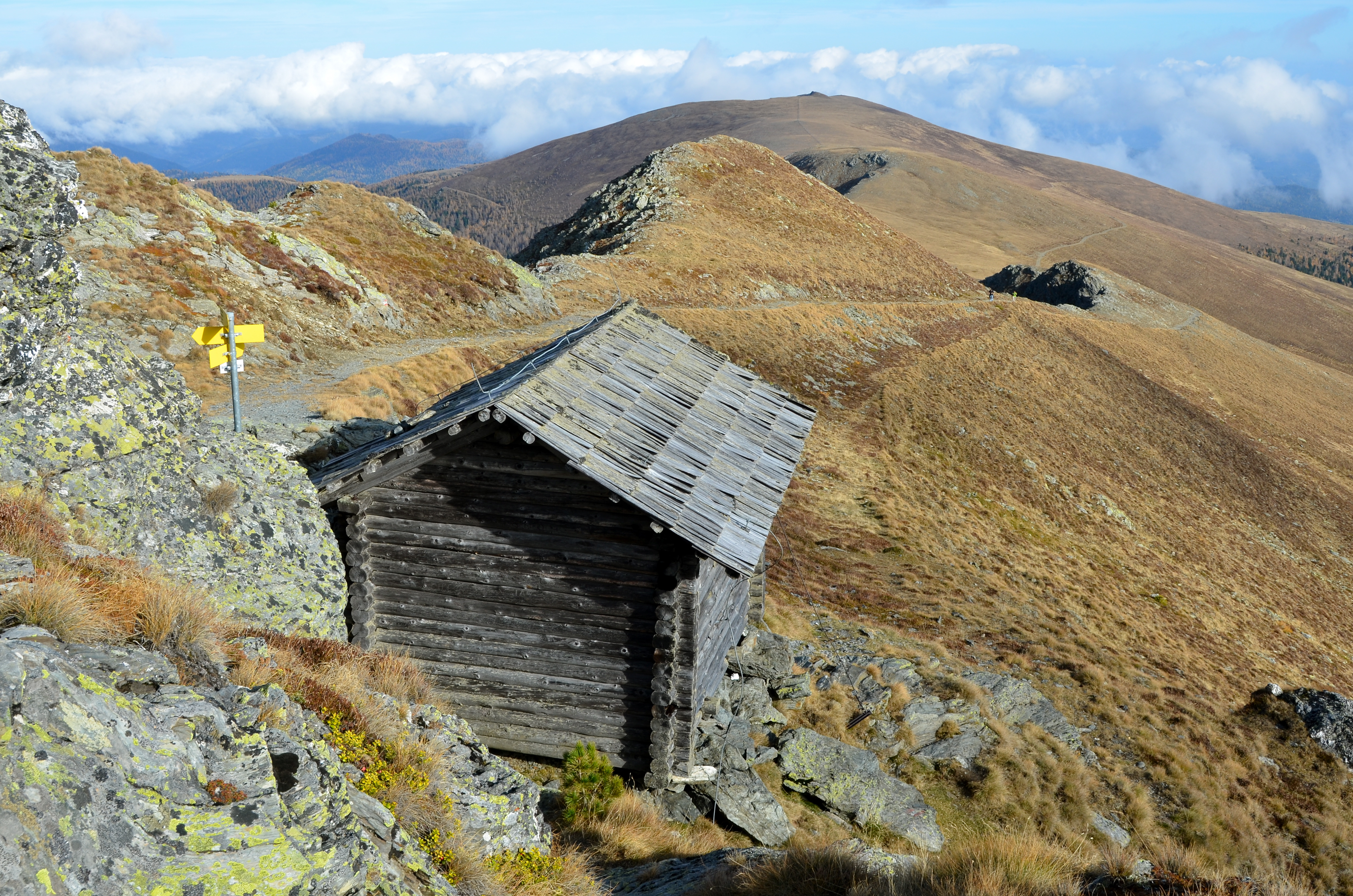 Bivouac hut on the hiking trail Lattersteig at Seebachern, municipality Albeck, district Feldkirchen, Carinthia / Austria / EU